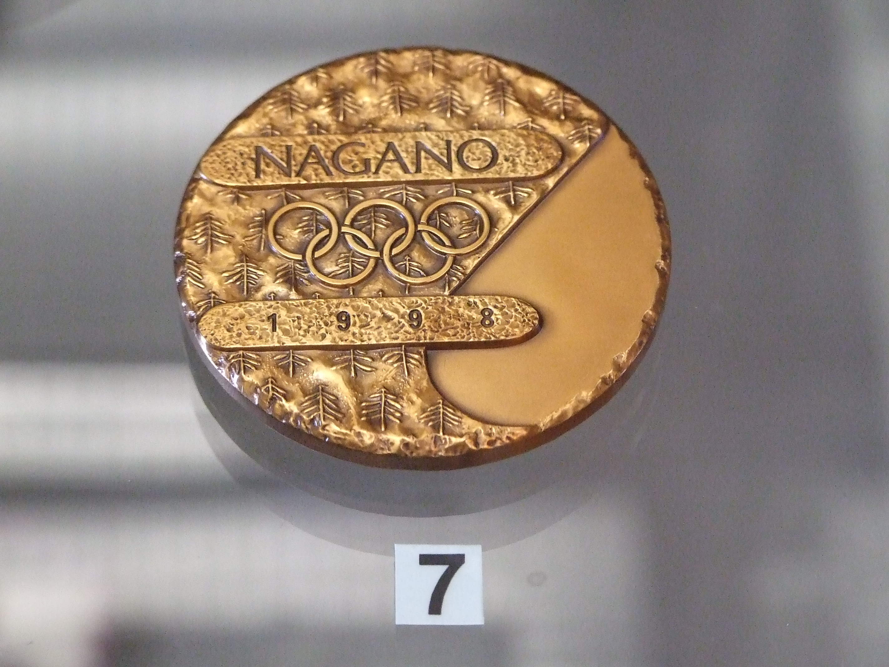 One Century Of Czech Ice Hockey Exhibition, National Museum in Prague: [1]